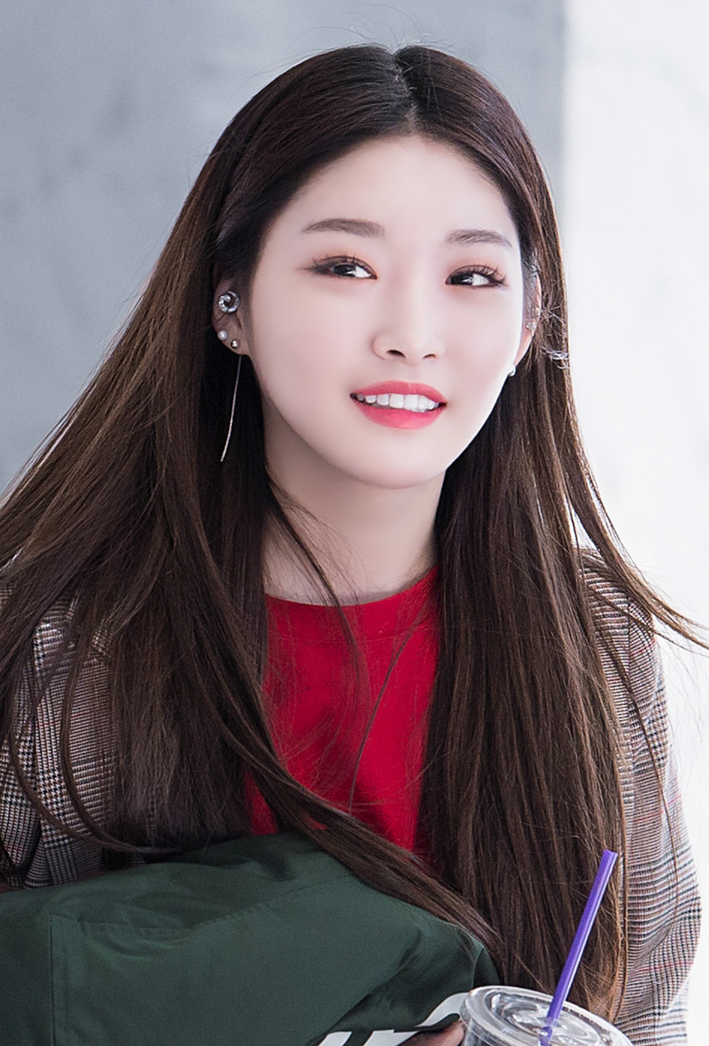 Chungha leaving a Choi Hwa Jung's Power Time on January 23, 2018.